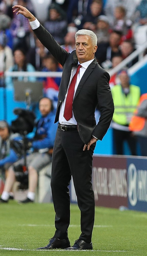 Vladimir Petković